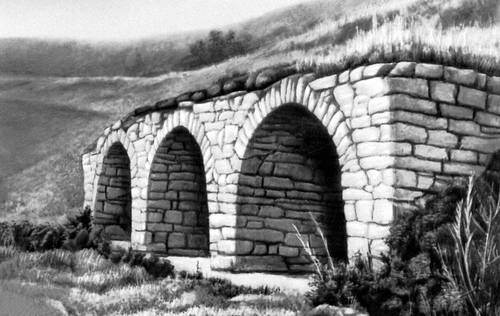 The illustration "Spring in the village of Mikrakh (Dagestan ASSR)" in the Great Soviet Encyclopedia.